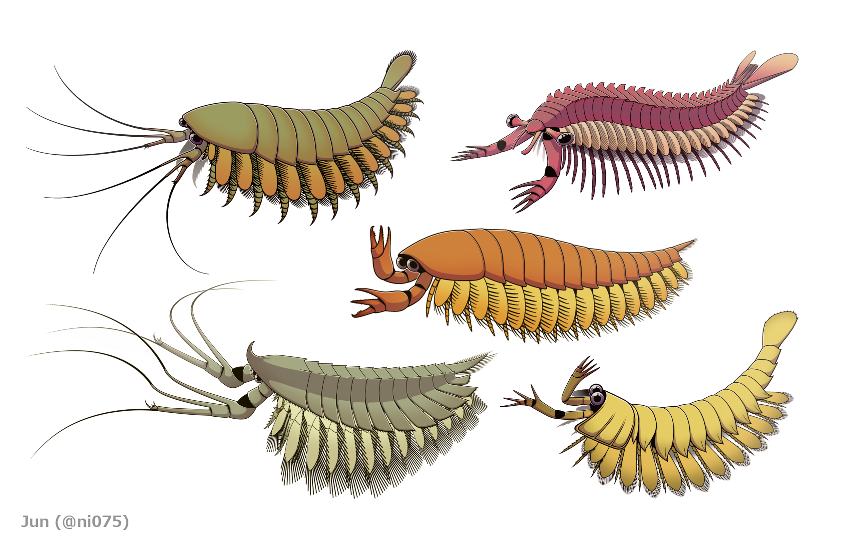 Examples of megacheirans a.k.a "great appendage arthropods". Size not to scale.